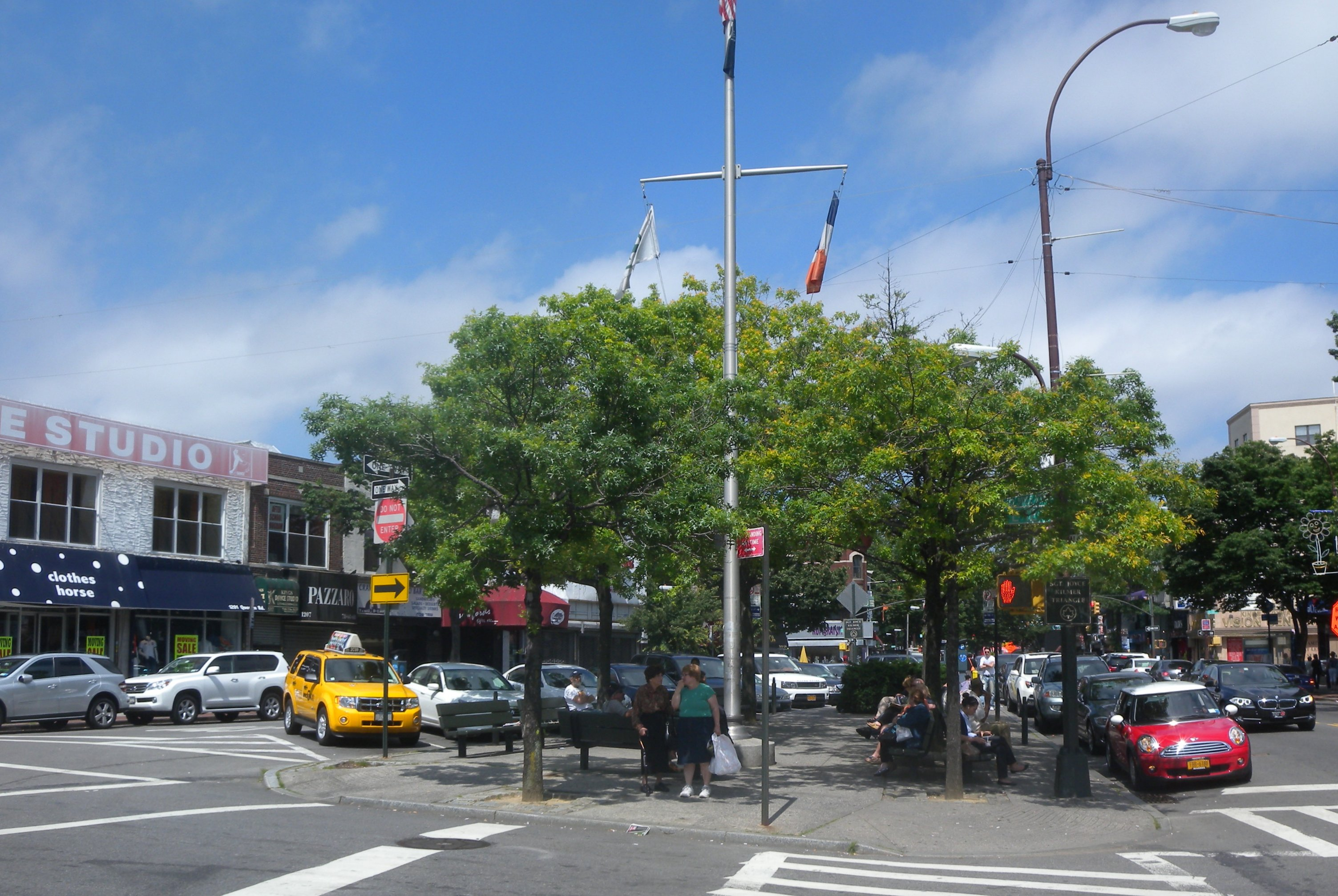 Looking east across East 12th Street at Kilmer Triangle on a mostly sunny early afternoon.